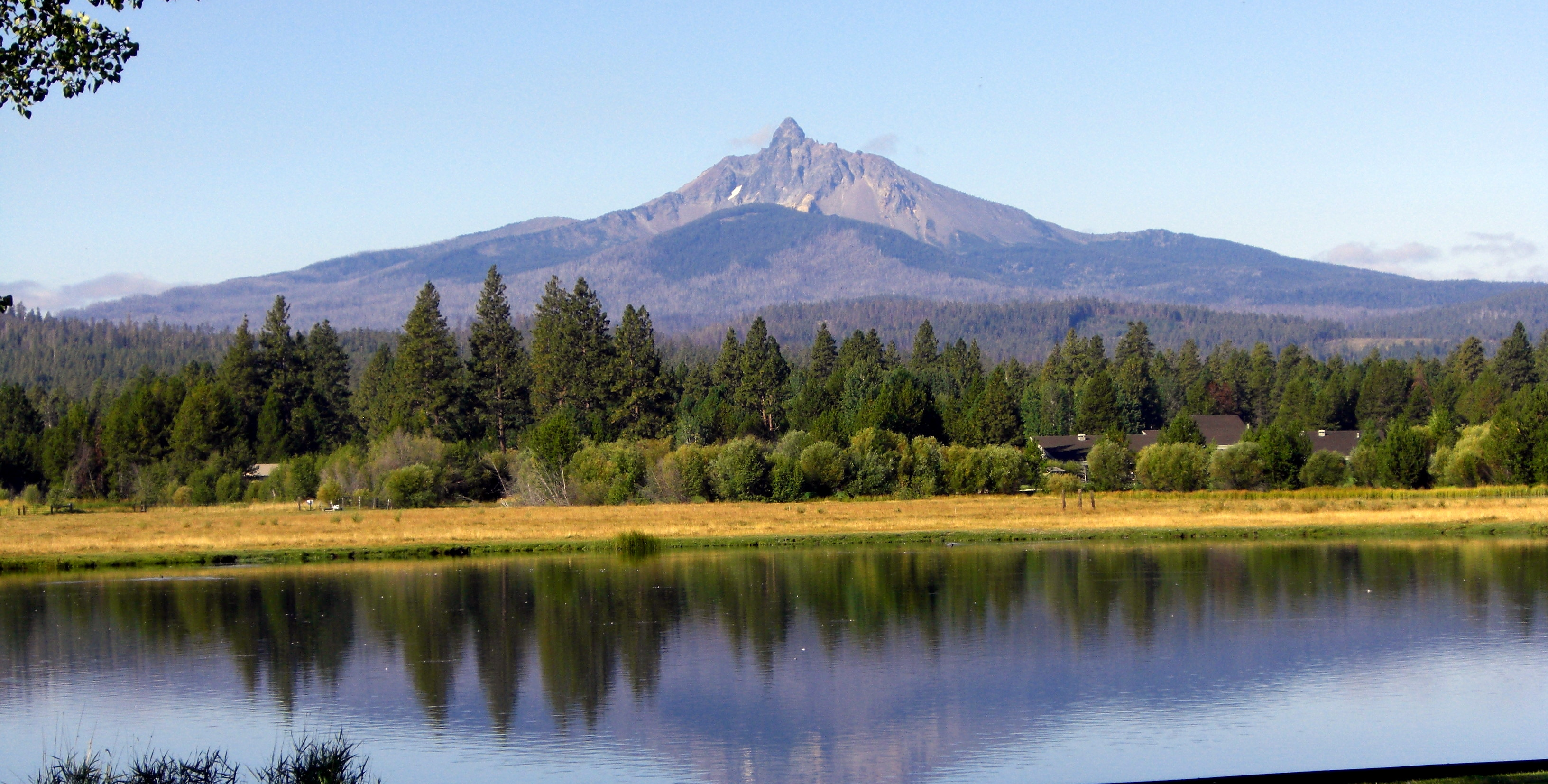 Black Butte Ranch - Mount Washington